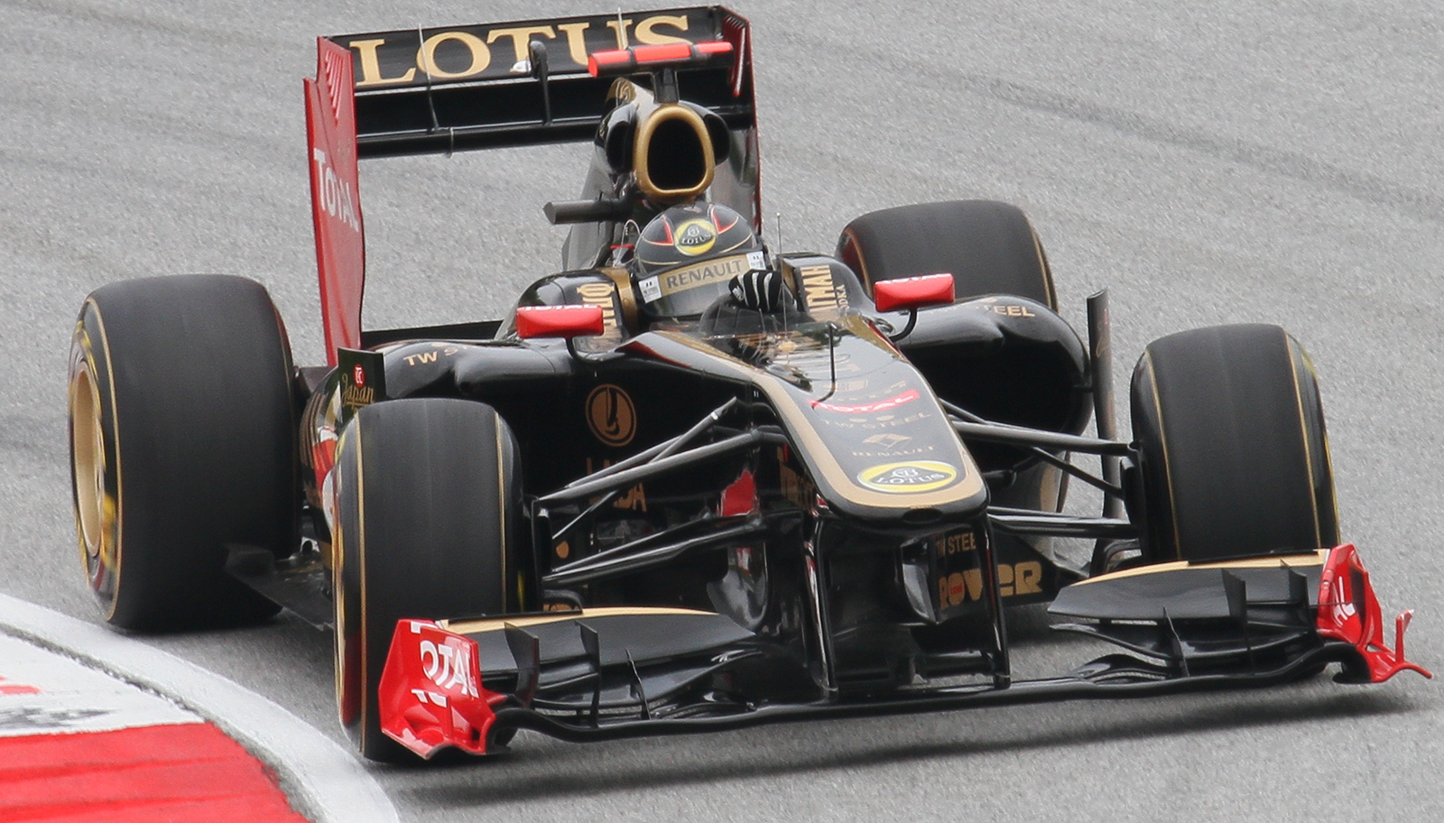 Formula One 2011 Rd.2 Malaysian GP: Nick Heidfeld (Renault) during the qualify session on Saturday.